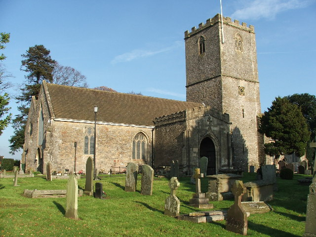 St. Mary's Church, Caldicot. Taken looking NE across the graveyard.